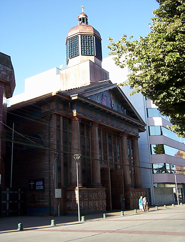 Cathedral located in Puerto Montt's square, in the South of Chile.